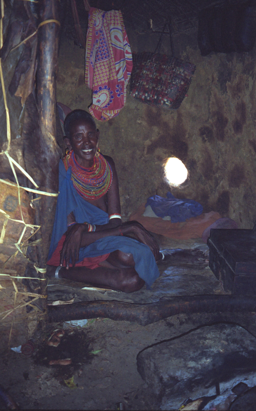 Inside a Samburu home.